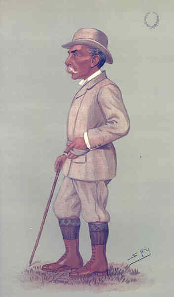 Caricature of Alfred Austin. Caption read "the Laureate".